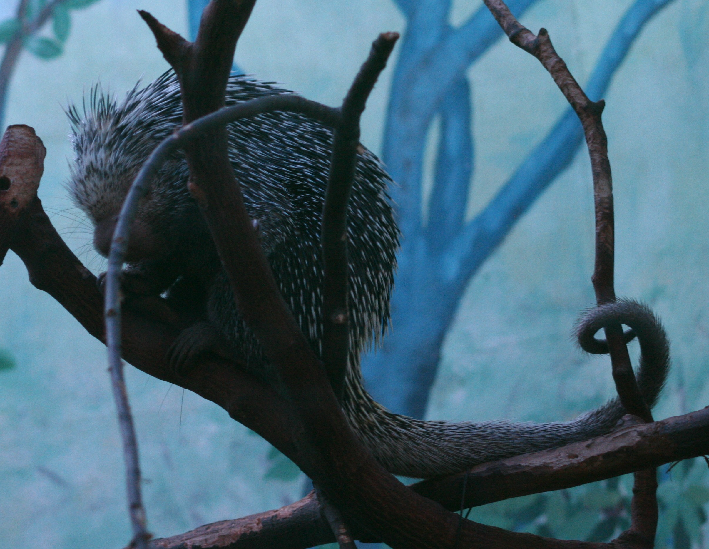 Brazilian Porcupine (Coendou_prehensilis) at the Buffalo Zoo